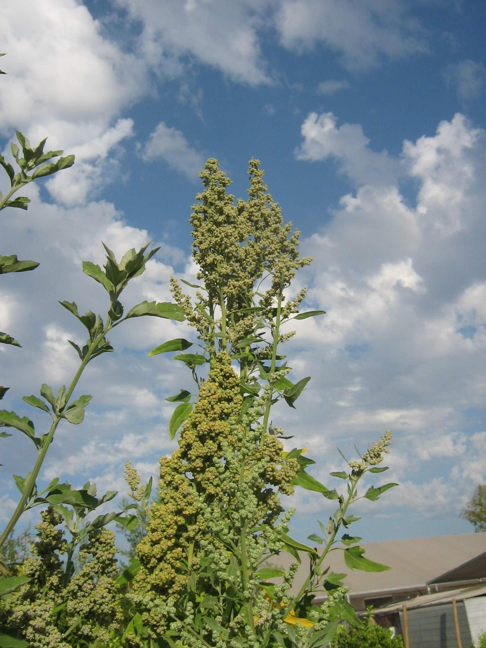 Chenopodium album, common weed